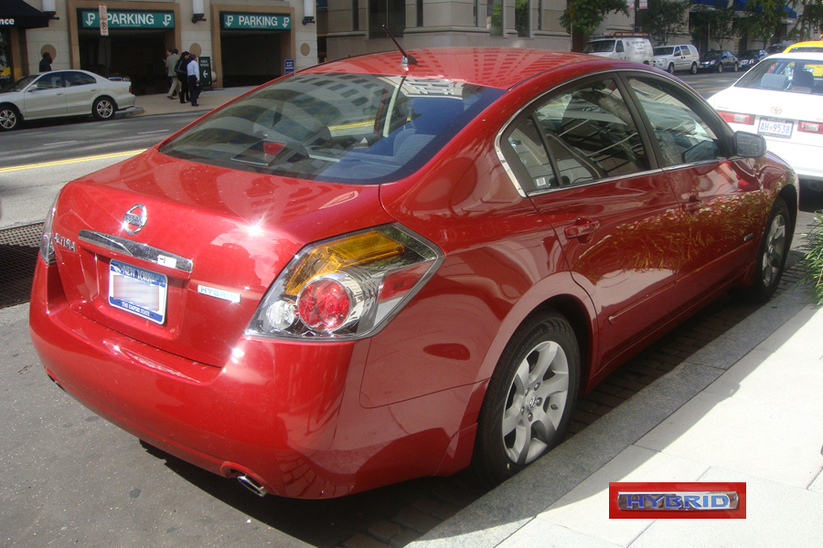 Nissan Altima Hybrid with inserted hybrid badging, Washington, D.C.